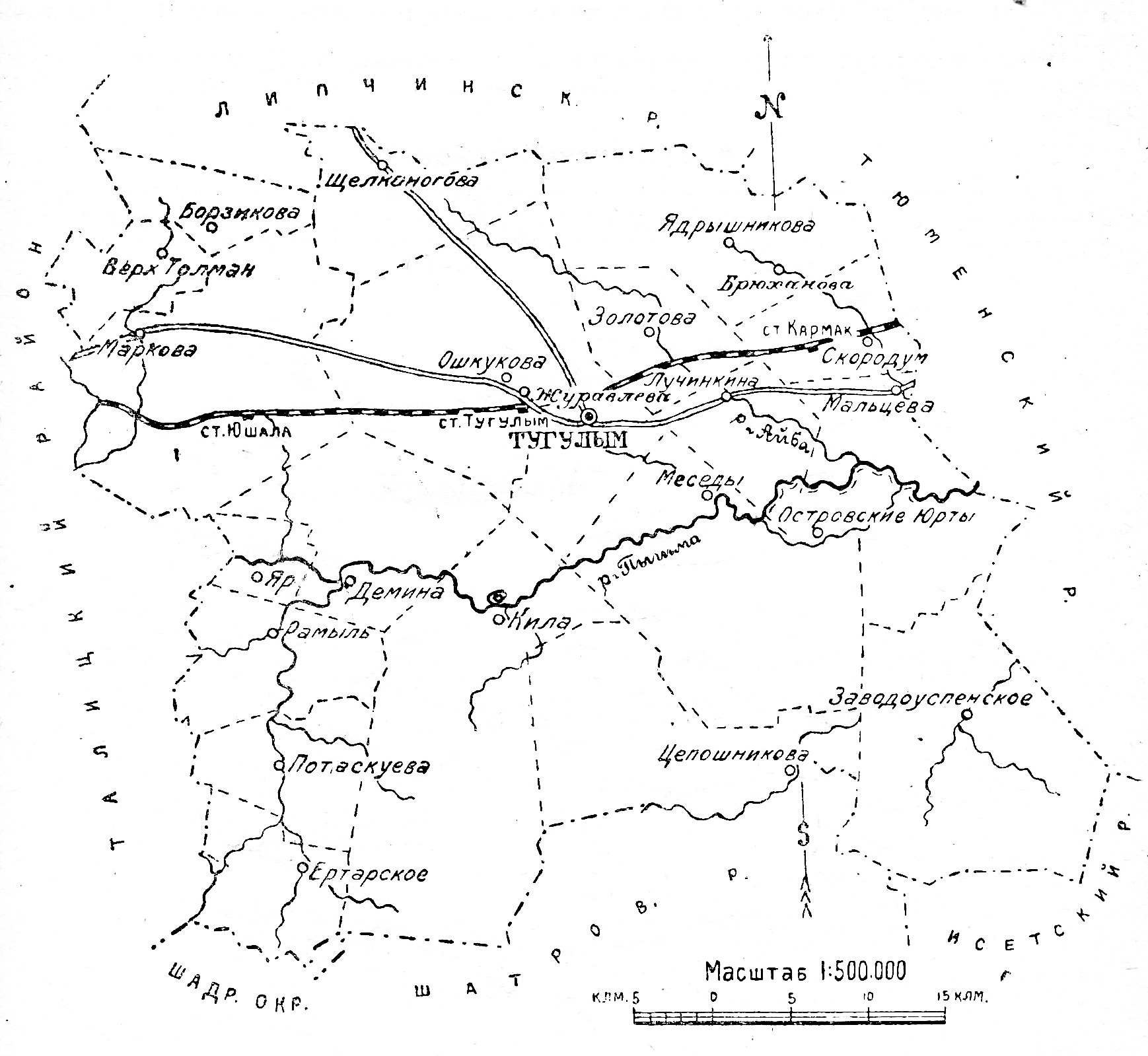 Map of Tugulymskiy rayon (Tyumenskiy okrug of Uralic Region of RSFSR) in 1928.